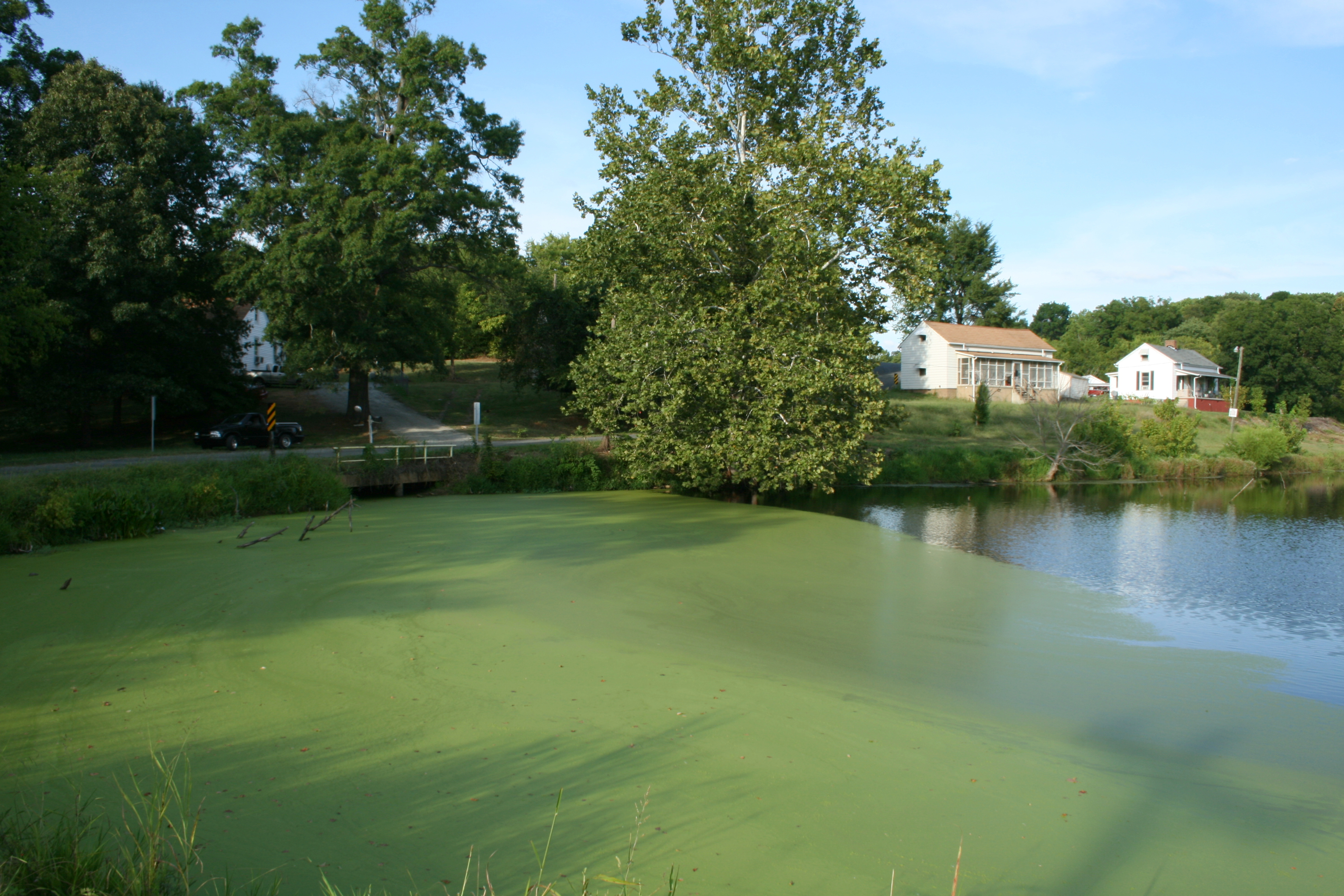 Algae blooming in a pond in Swepsonville, North Carolina.